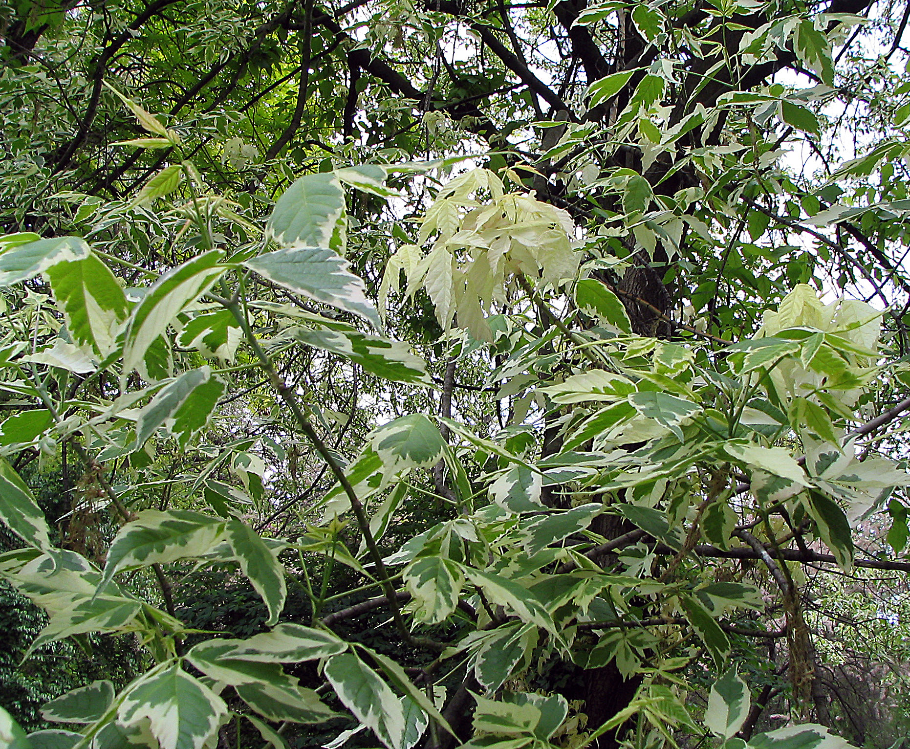 Acer negundo 'Variegatum'